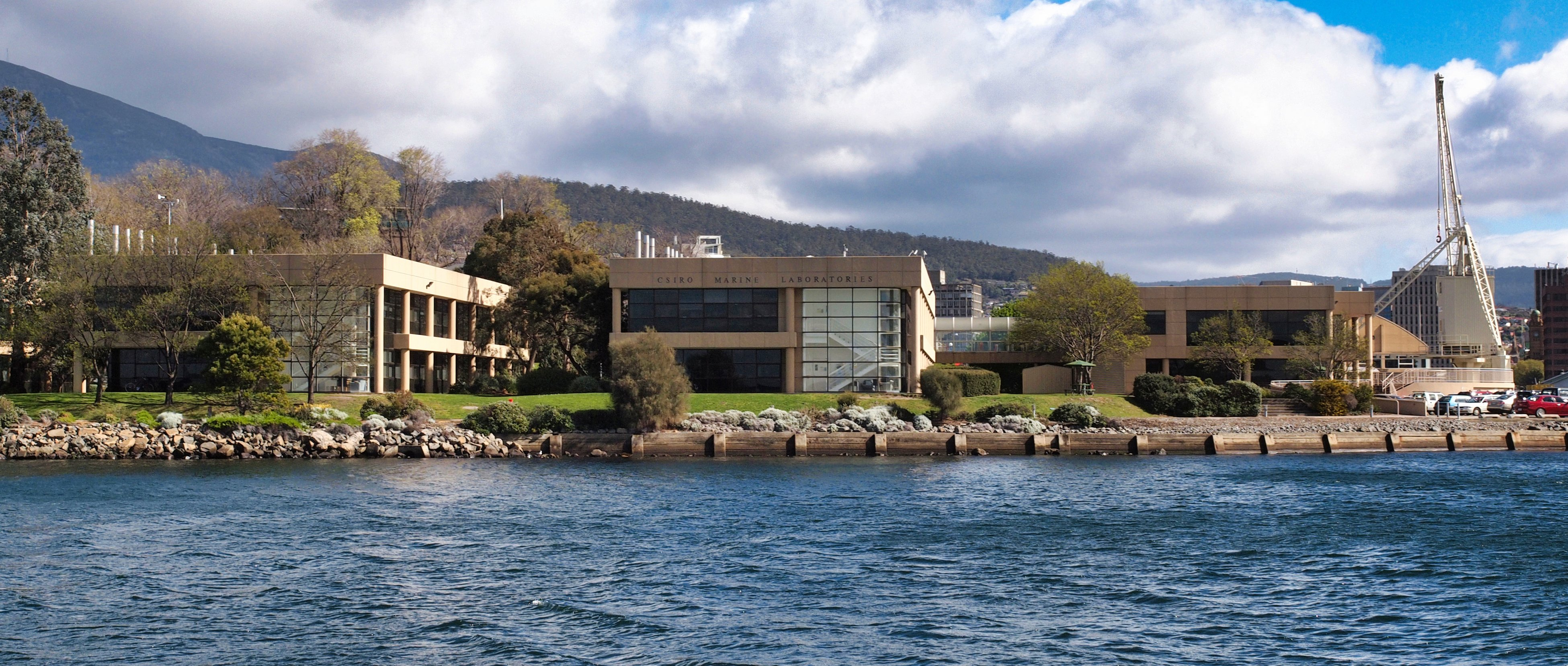 CSIRO Marine and Atmospheric Research Laboratories at Salamanca Place, Tasmania.